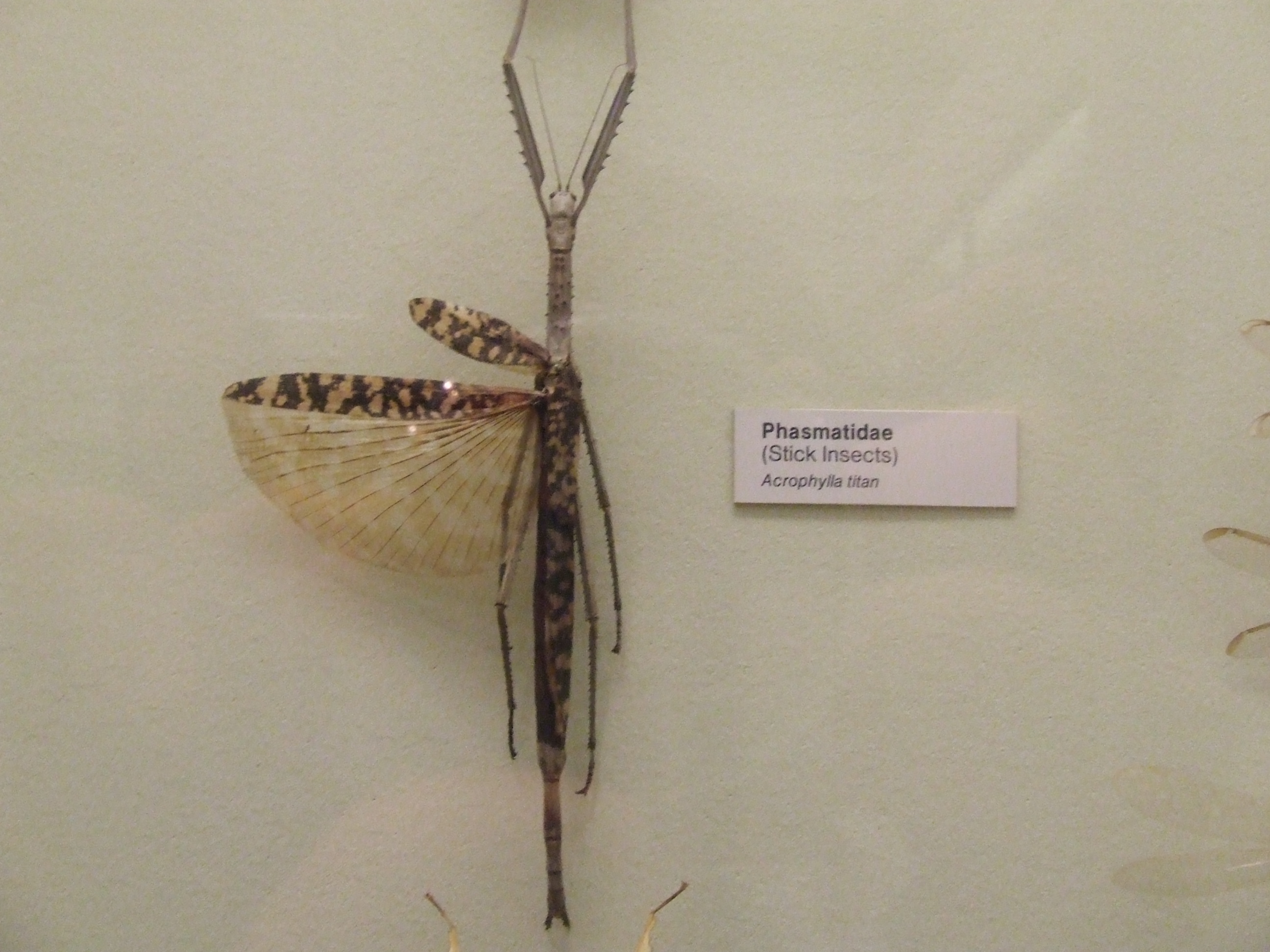 Pinned Titan stick insect